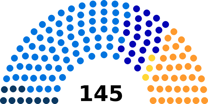 Seats diagramme of Swiss National Council (1881)